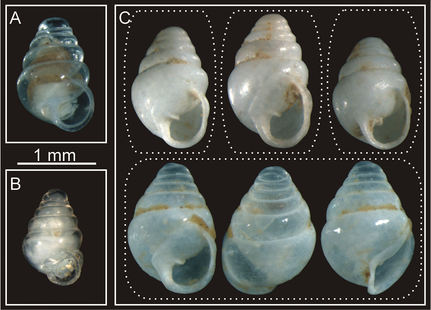 Zospeum species. A Zospeum tholussum holotype B Zospeum pretneri from locus typicus, which demonstrates the lowest genetic distance to Zospeum tholussum C Second Zospeum sp. from the Lukina Jama–Trojama cave system.